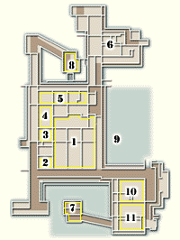 Layout Nishi Honganji Daishoin